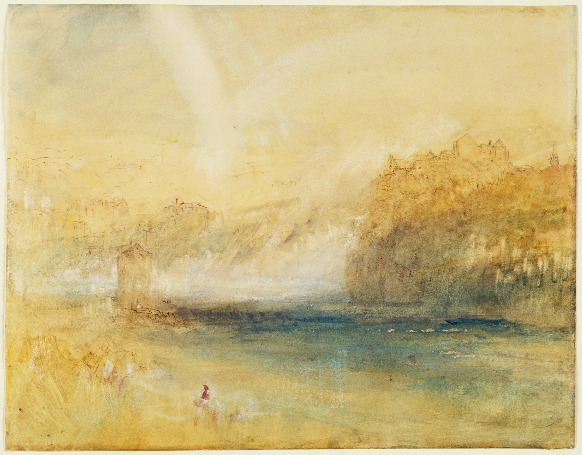 Joseph Mallord William Turner, British, 1775–1851 Rhine Falls of Schaffhausen, ca. 1841 Watercolor heightened with white chalk over graphite with touches of pen and reddish brown ink and scraping on white wove paper prepared with gray wash 22.6 x 28.8 cm. (8 7/8 x 11 5/16 in.) Museum Purchase, gift of Mrs. Millard Meiss and the Surdna Fund x1982-48